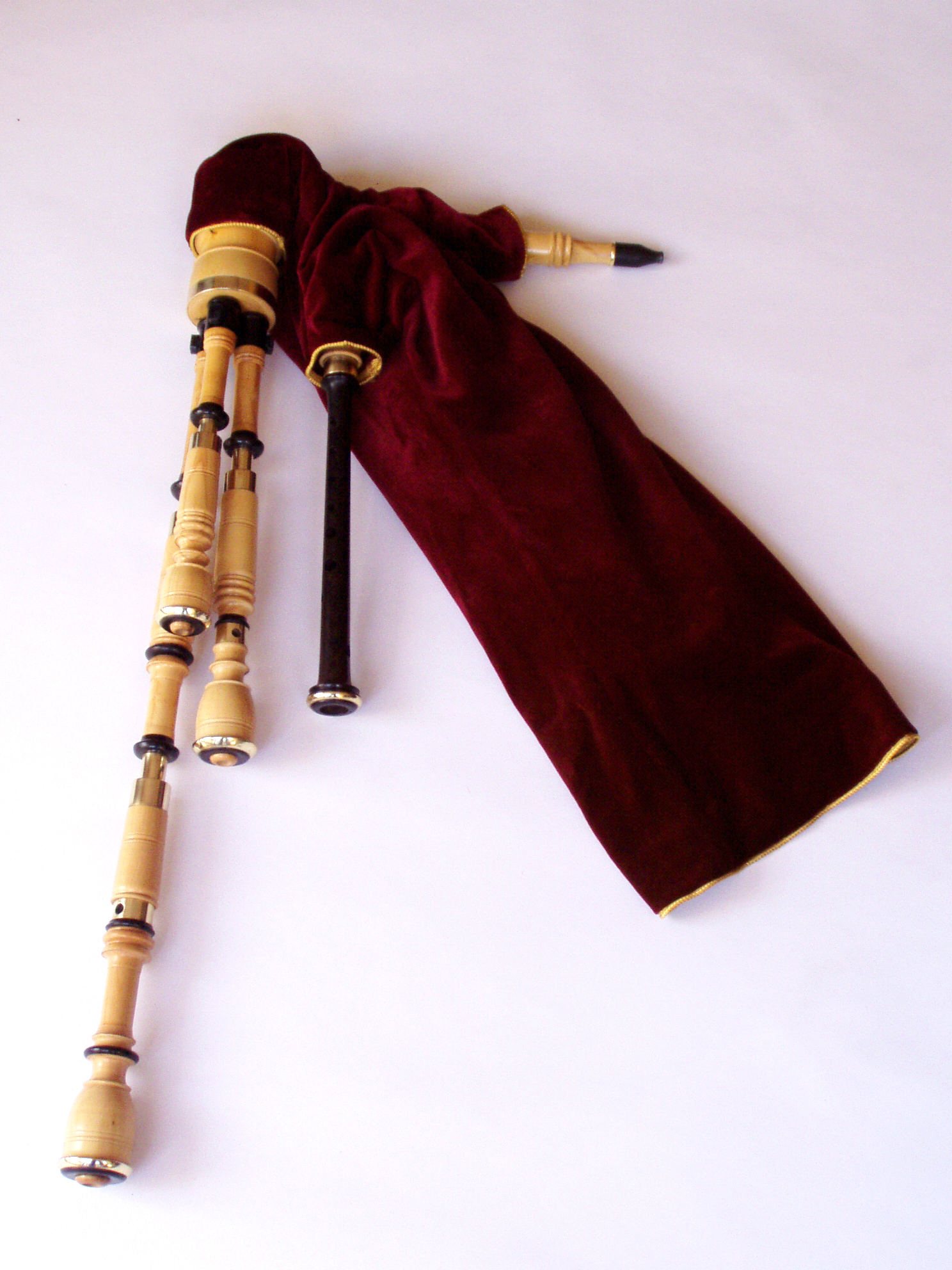 Catalan bagpipe, built in 2006 by Xavier Garcia Bosch, made of boxwood, grenadilla mounts and brass ferrules, chanter in grenadilla, synthetic bag. This bagpipe belongs to the piper Gerard Alís Raurich.